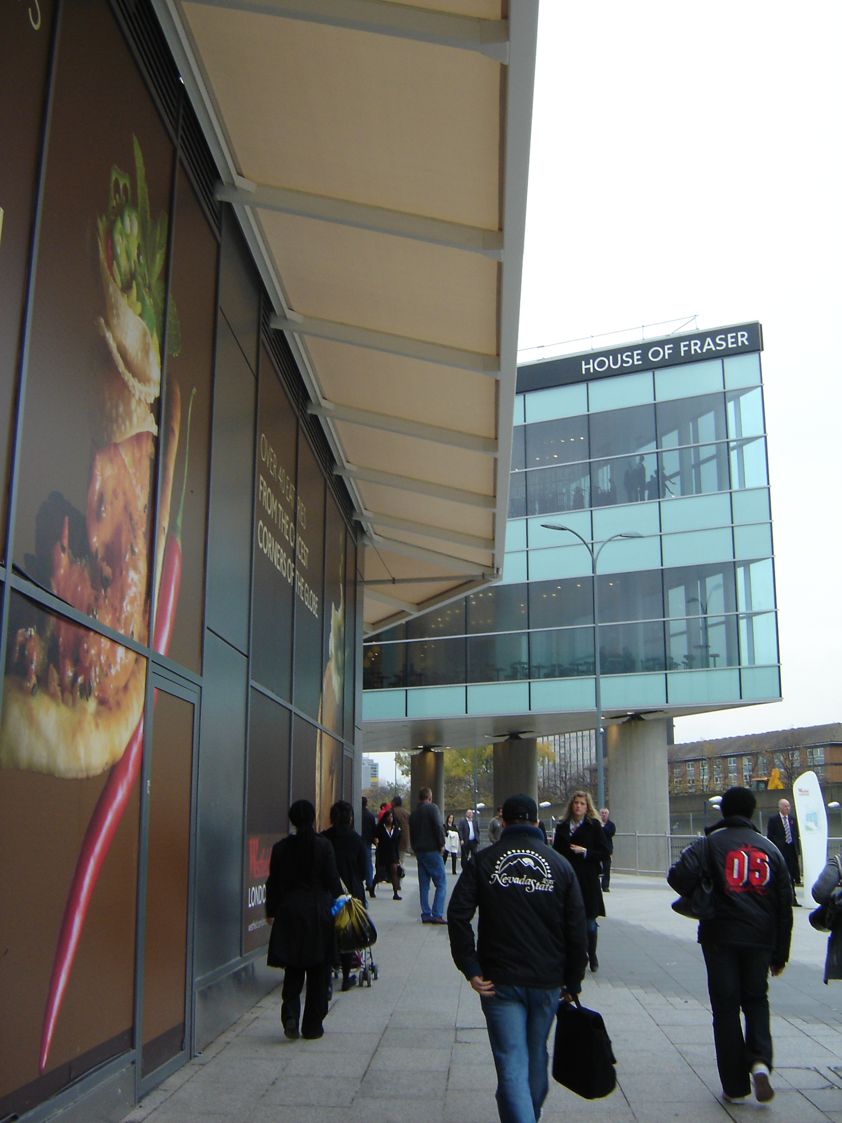 Approaching the Westfield centre on foot from Shepards Bush Green, a triangualar section of the House of Fraser cuts out like a knife.